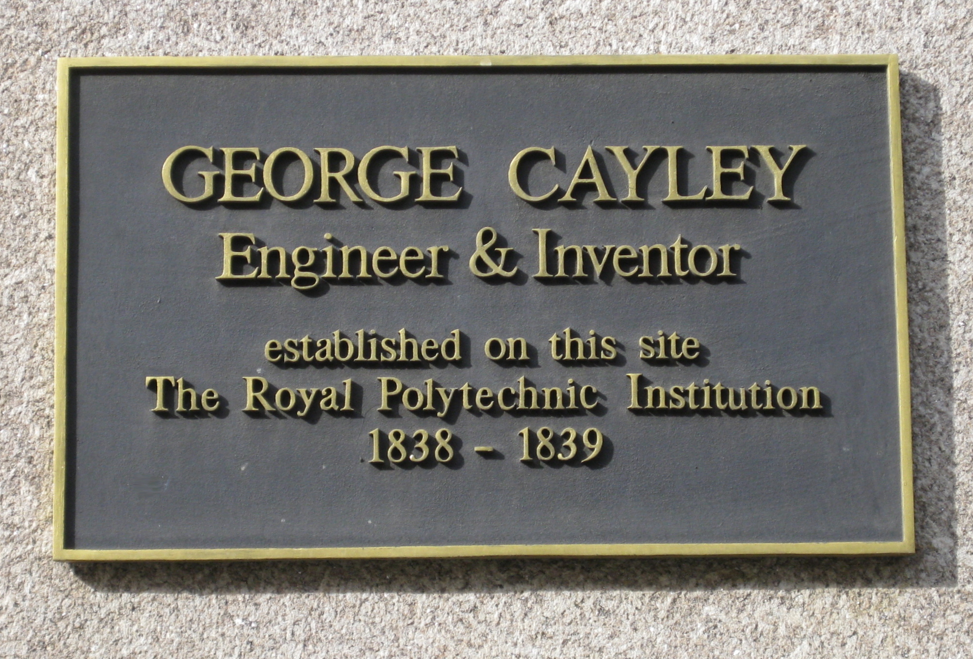 George Cayley Plaque, Polytechnic entrance 309 Regent Street, London. University of Westminster